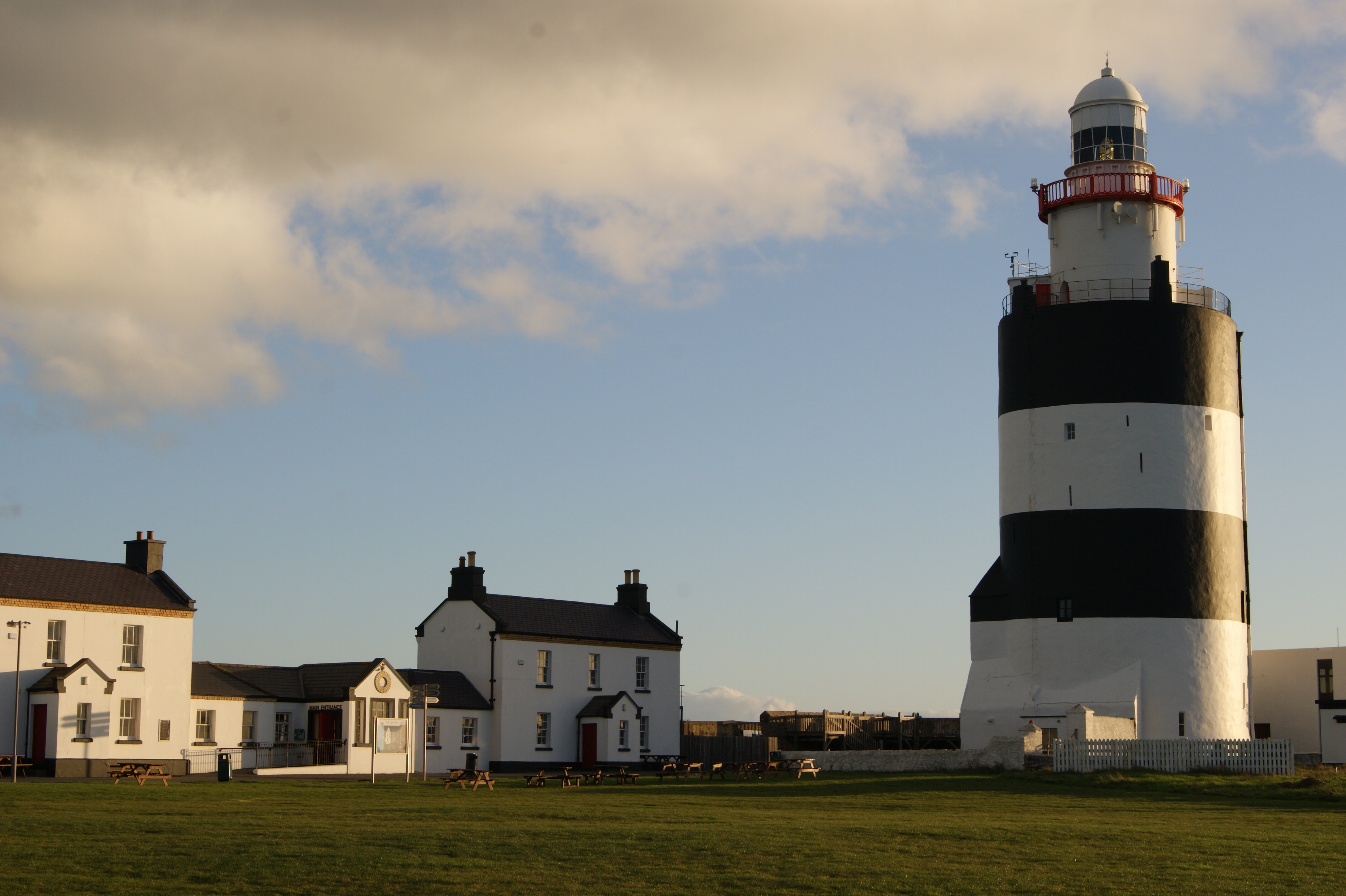 Hook Head: Hook Lighthouse